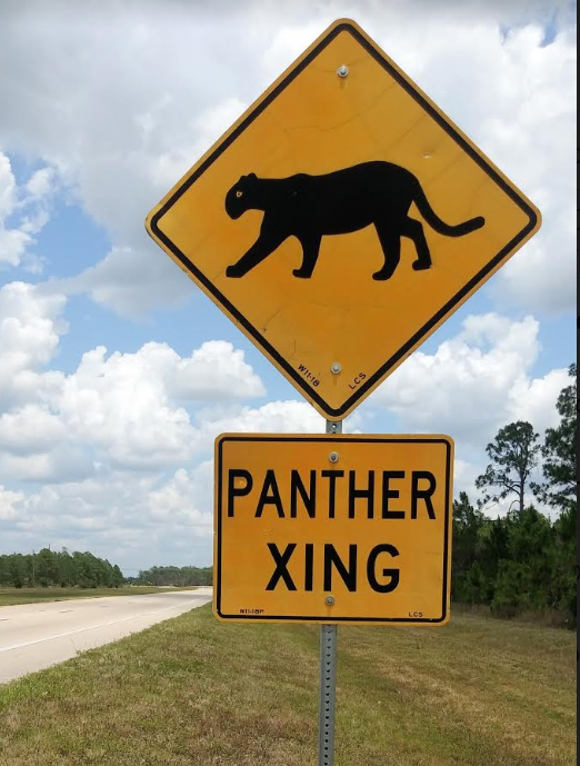 A roadside traffic sign on Daniels Boulevard in Fort Meyers, Florida, USA warning drivers to keep alert for any panthers that may be crossing the road.